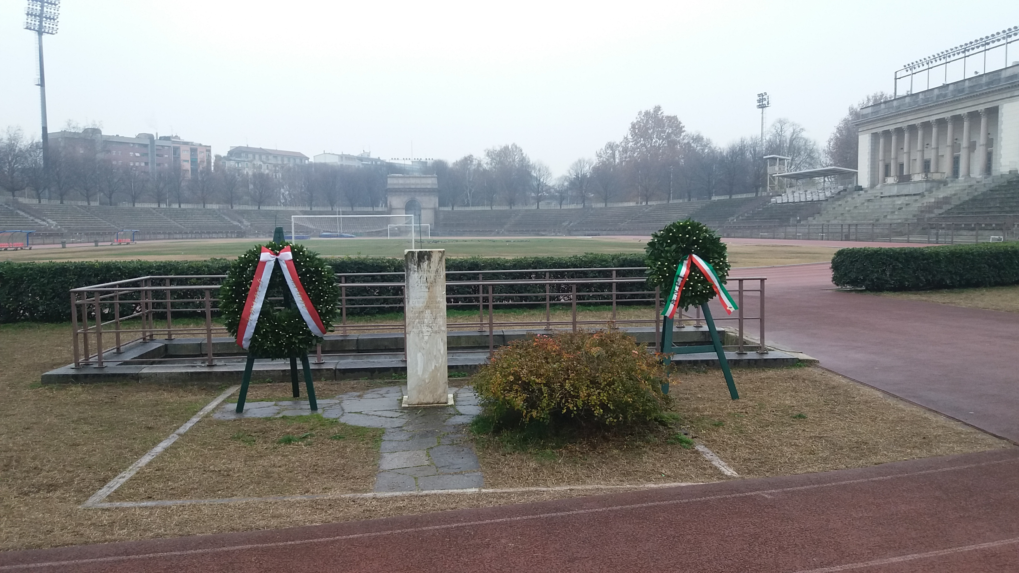 Wreaths of ANPI and Milan Municipality remembering the killing of 8 partisans at the Arena in Milan on December 19, 1943